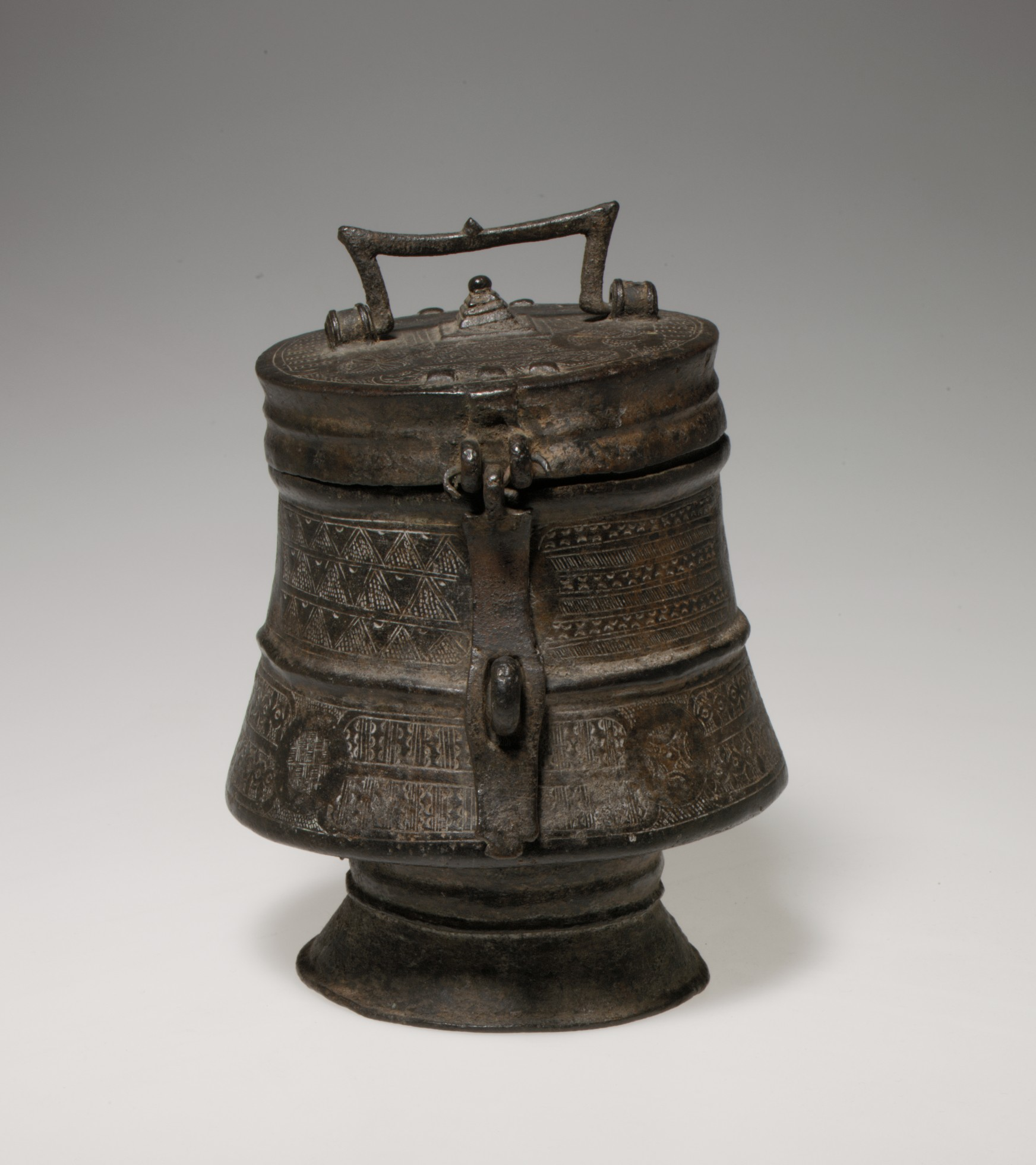 Akan peoples, Asante; Vessel with lid; Metal-Containers